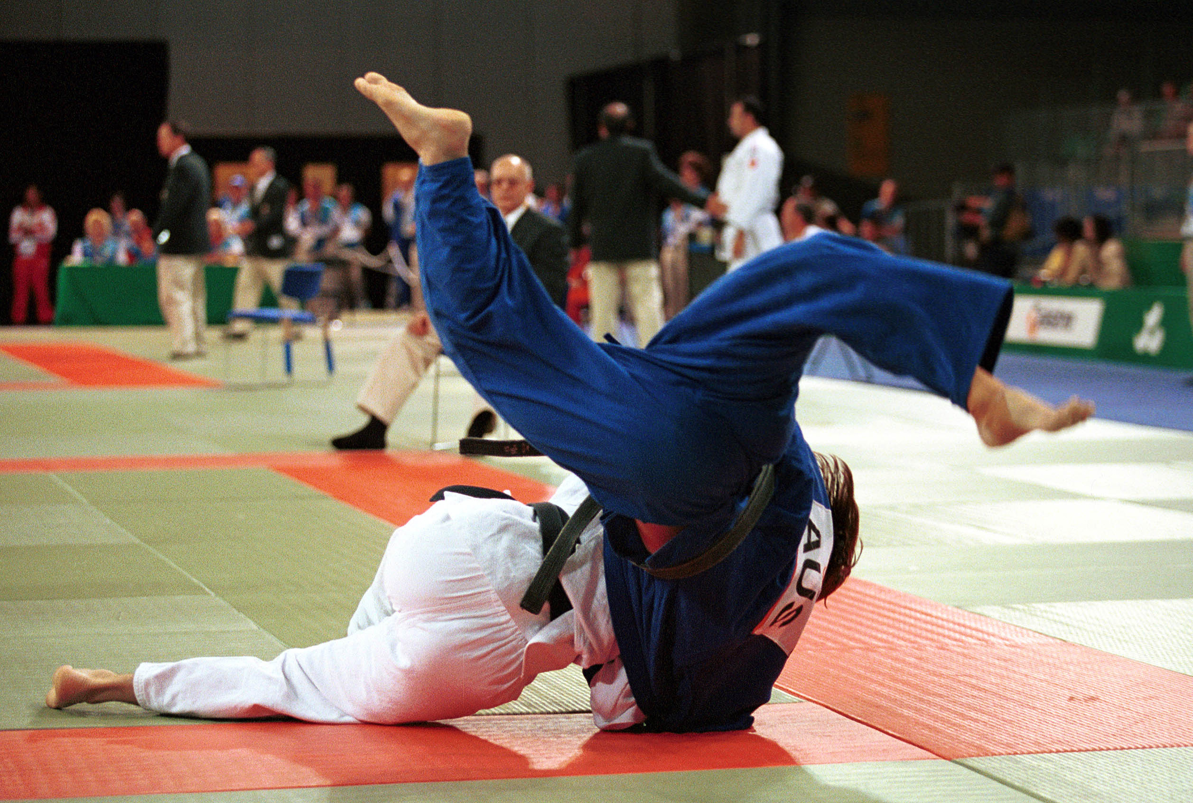 Australian judoka Anthony Clarke fights Ian Rose during 2000 Sydney Paralympic Games match